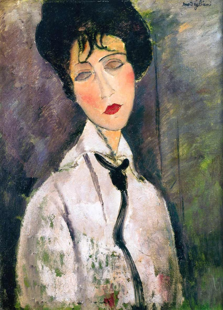 Woman with Black Cravatlabel QS:Len,"Woman with Black Cravat"label QS:Lfr,"Femme à la cravate noire"